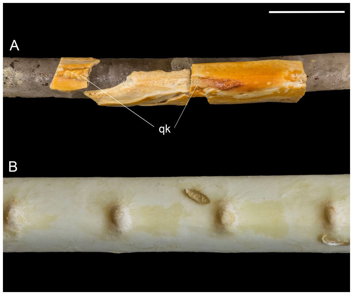 Quill knobs on Mirarce eatoni and Pelecanus occidentalis. (A) Right ulna of Mirarce. (B) Close-up photo of the ulna of a modern Pelecanus. Abbreviation: qk, quill knobs. Scale bar equals one cm.